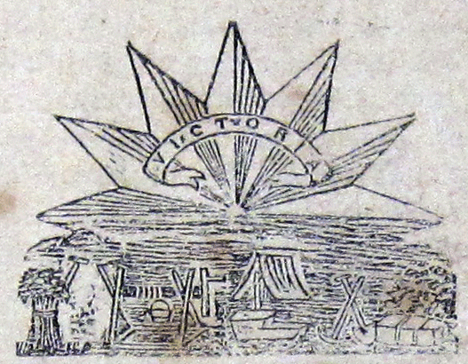 Centrepiece shows a modified Eureka Star, one word Victoria and sketches depicting farming and mining icons in Ballarat